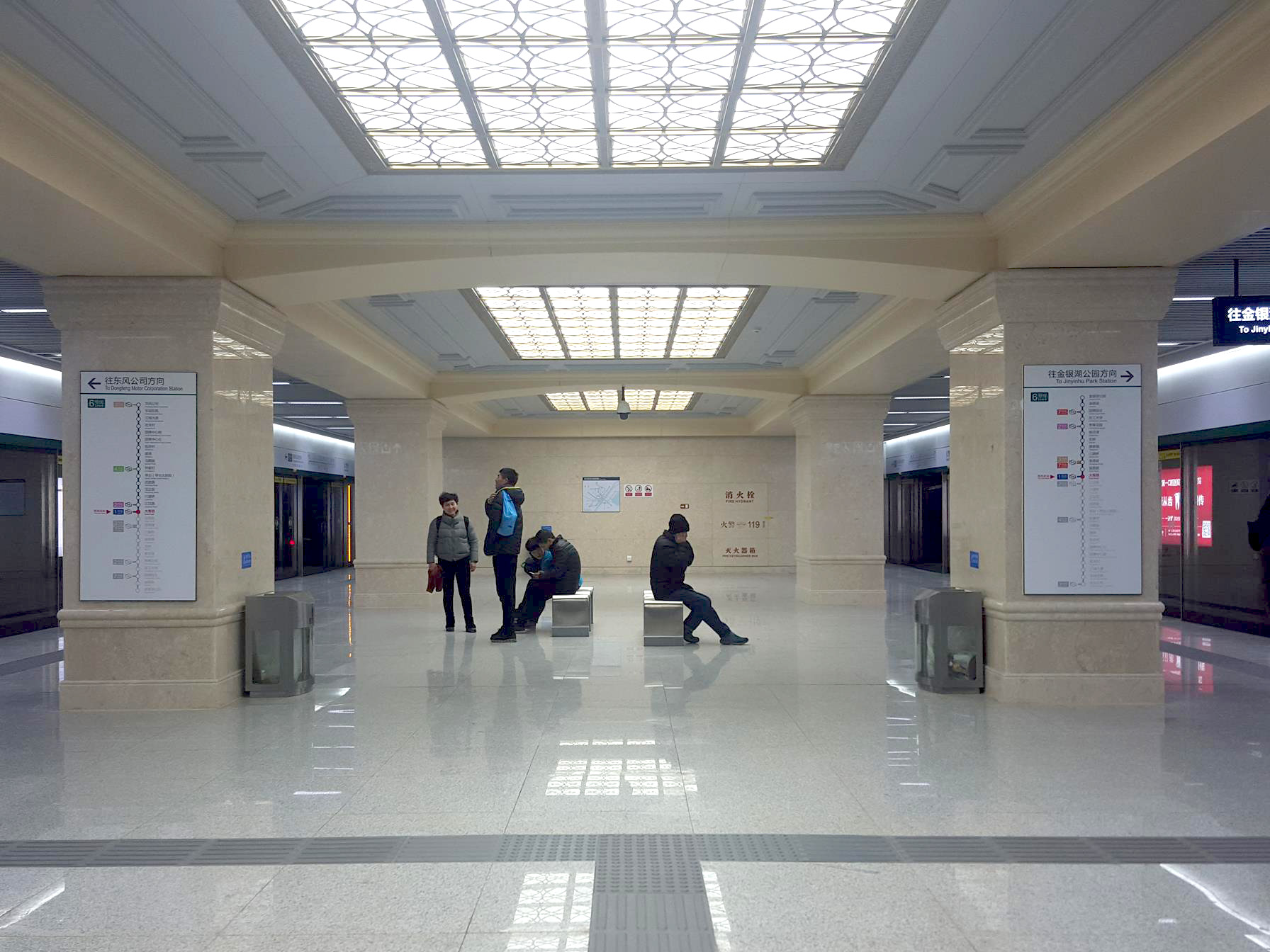 Platform of Dazhi Road Station, Wuhan Metro Line 6